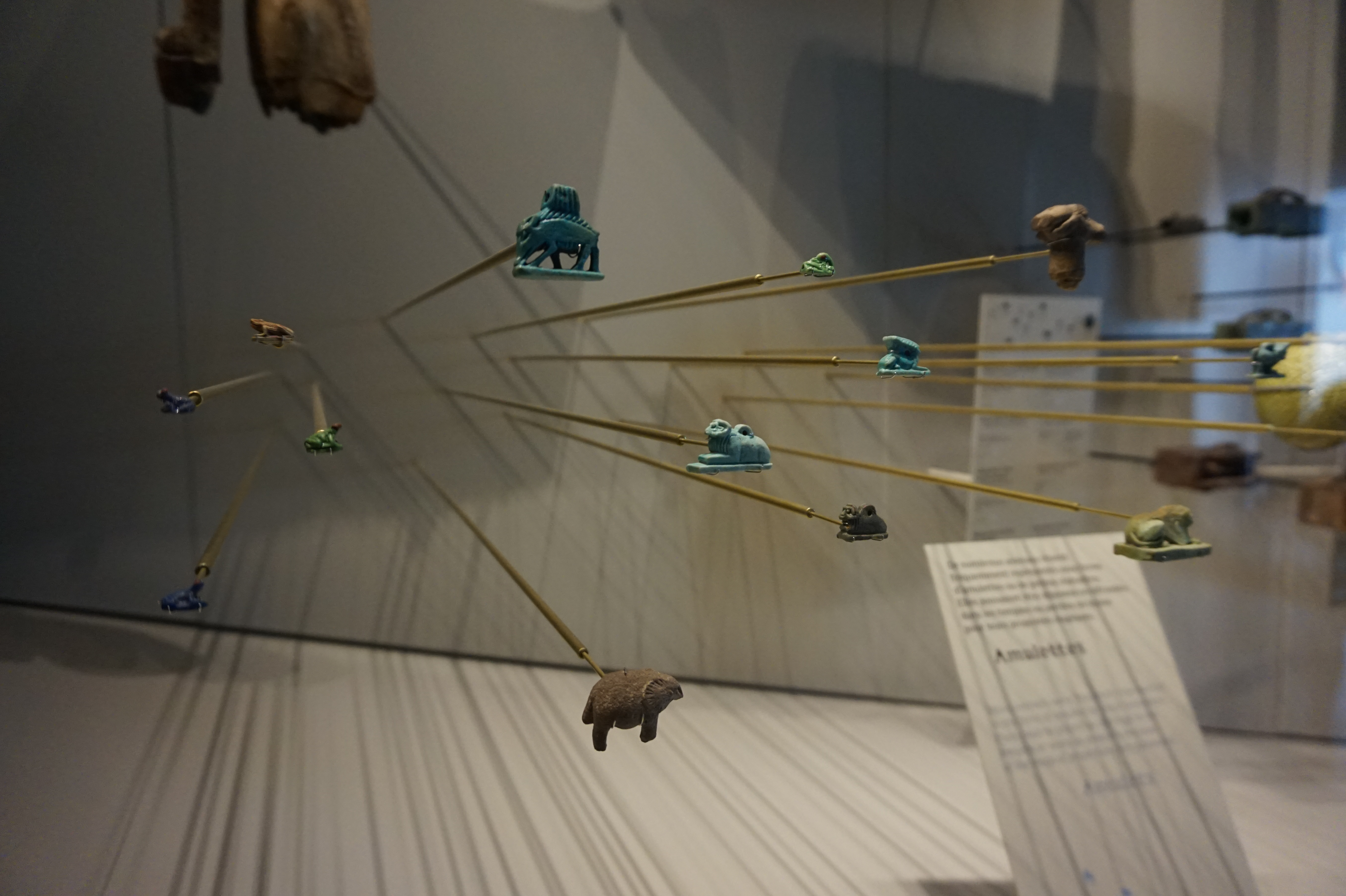 Small museum artifacts displayed at the Musée des Confluences